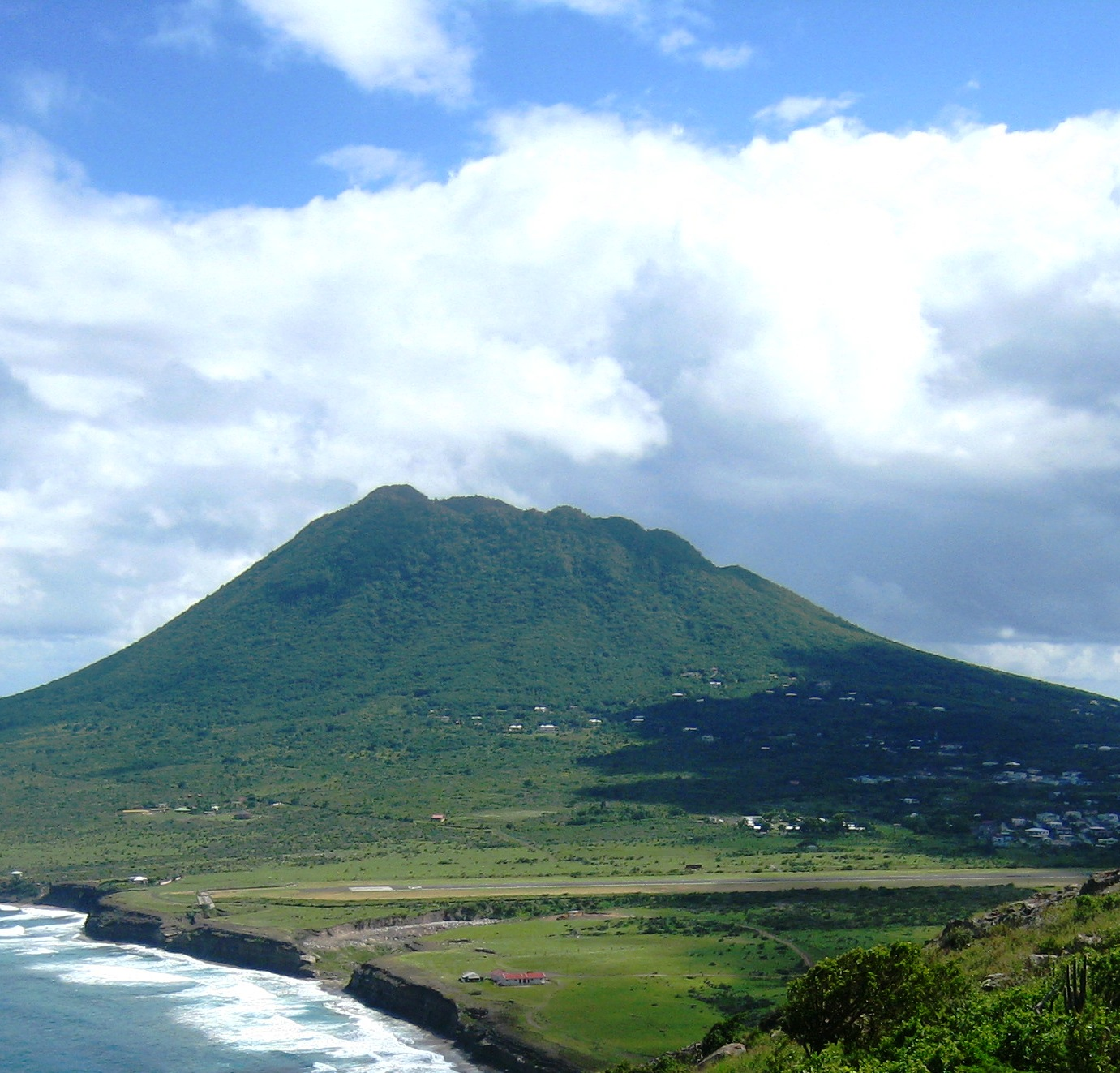 The northern end of the runway of F.D. Roosevelt Airport on Sint Eustatius (in center of picture with dormant Quill volcano in background)